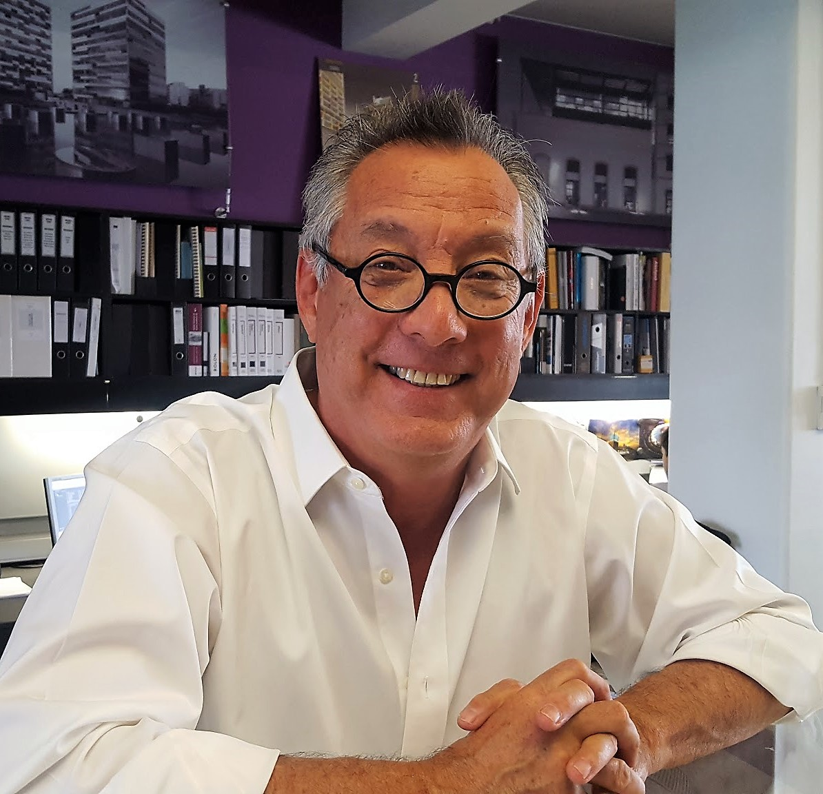 Mário Carlos Sua Kay